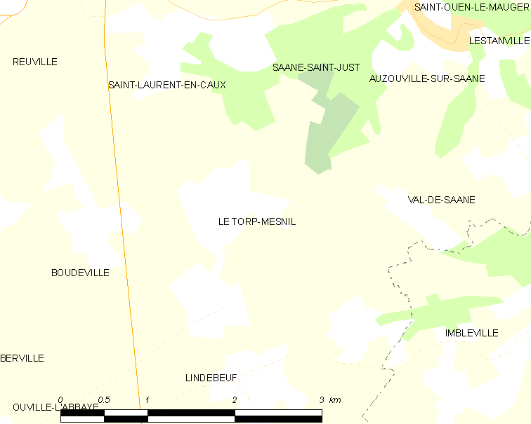 Map of French municipality Le Torp-Mesnil